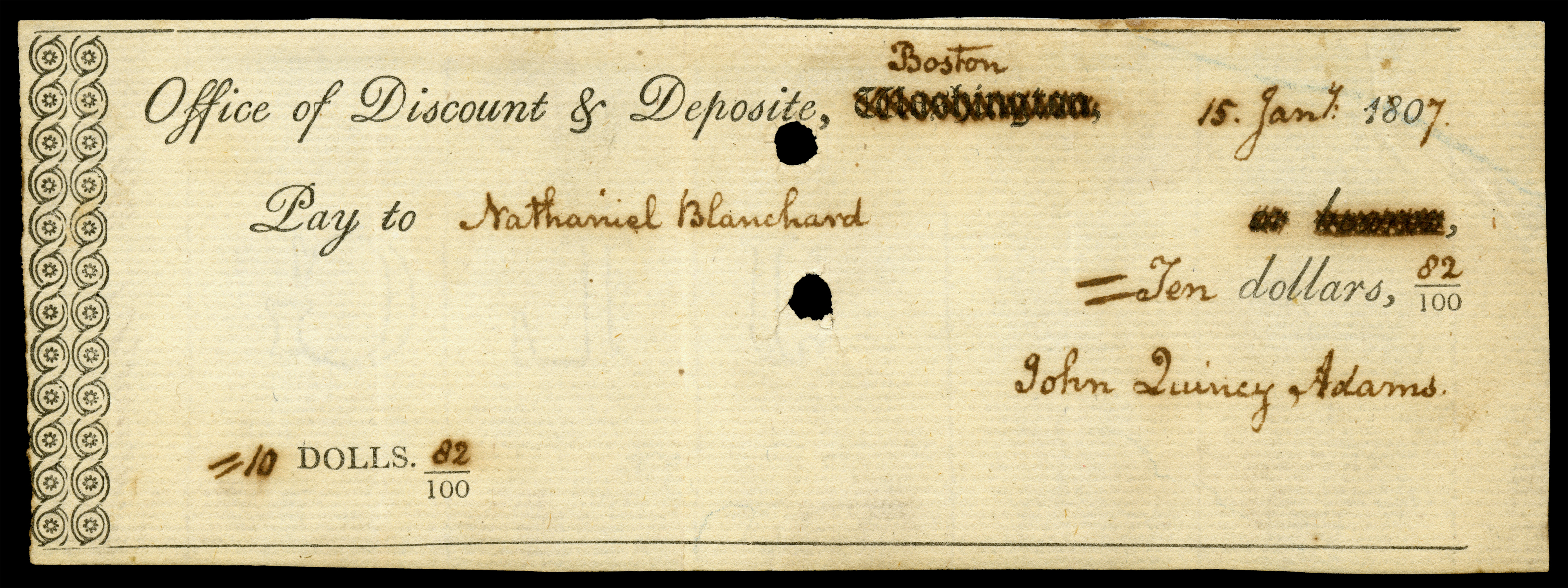 Signed check by John Quincy Adams (6th President of the United States) while he was a US Senator from Massachusetts.